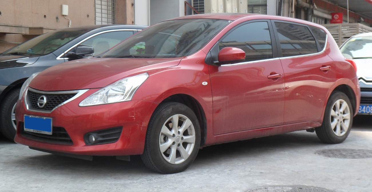 Nissan Tiida C12 photographed in Shanghai, China.